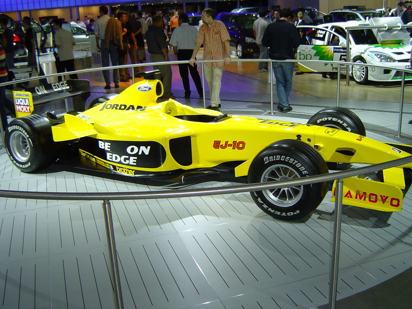 The Jordan EJ13 at the 2003 IAA exposition